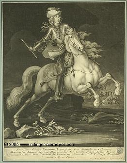 Prince Eugène of Savoy, known as Prinz Eugen von Savoyen in German (1663-1736) was one of the most brilliant generals in the history of the Habsburg Empire